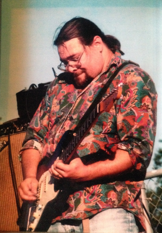 John Simoneaux playing an outdoor festival in North Central Louisiana. Image from 2015 Silent Auction.